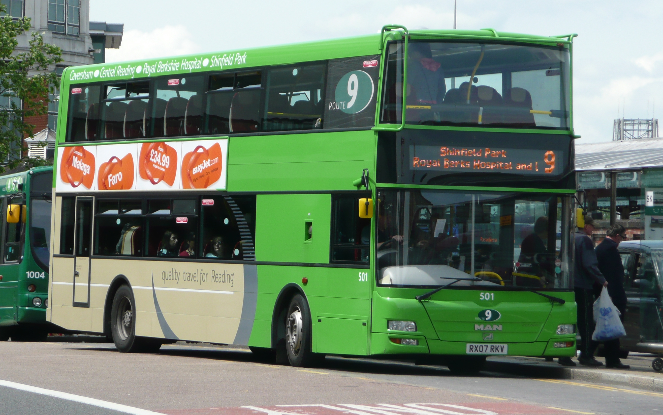 A Reading Transport bus on route 9. It is an MAN ND293F with an East Lancashire Kinetic+ body, registration mark RX07 RKV, fleet number 501. It is the only East Lancs Kinetec+ ever built.